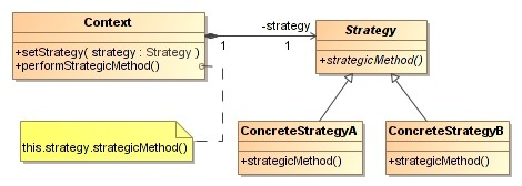 Strategy Pattern in UML